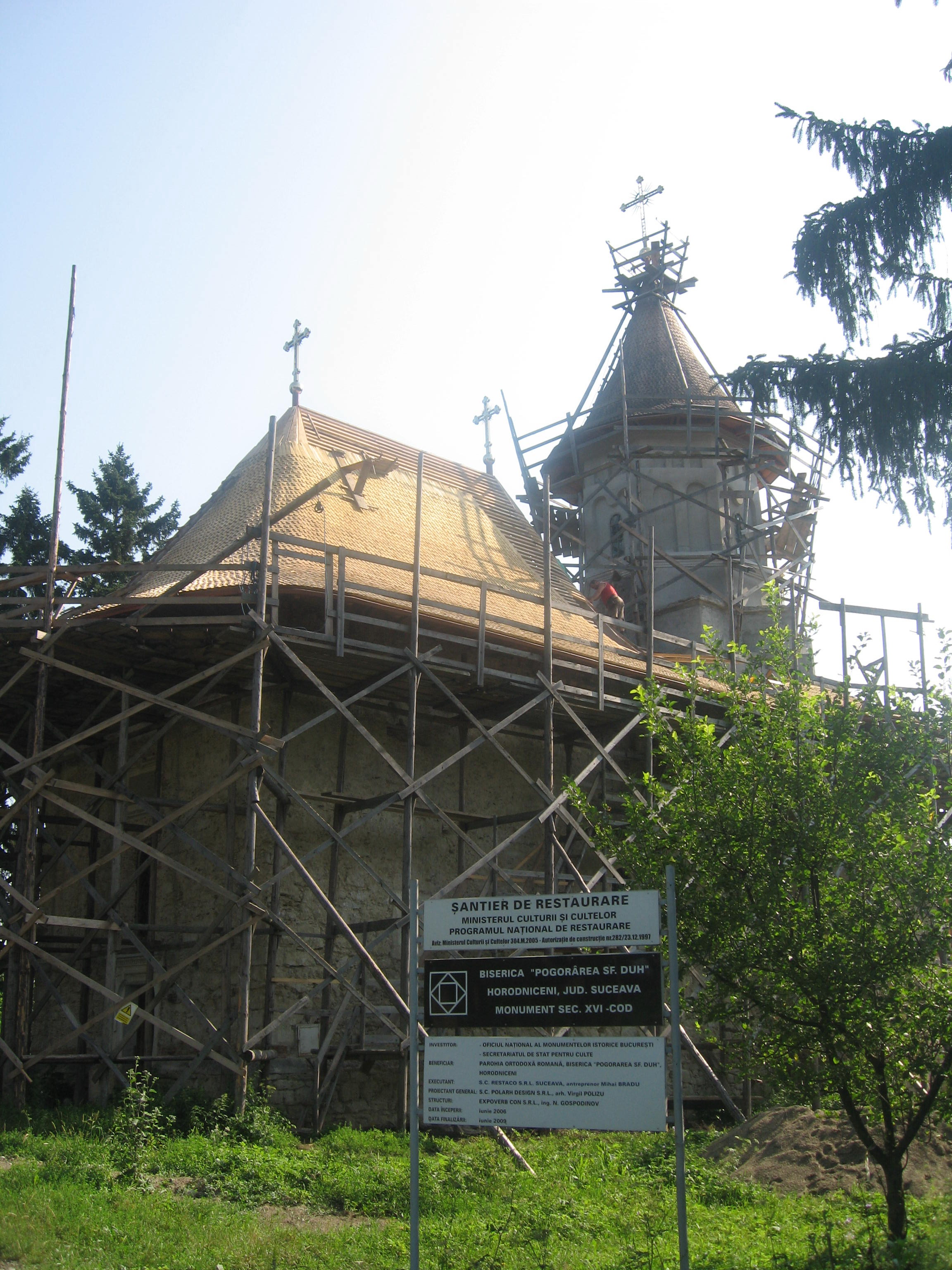 Biserica Pogorarea Sf. Duh din Horodniceni, 1539 01